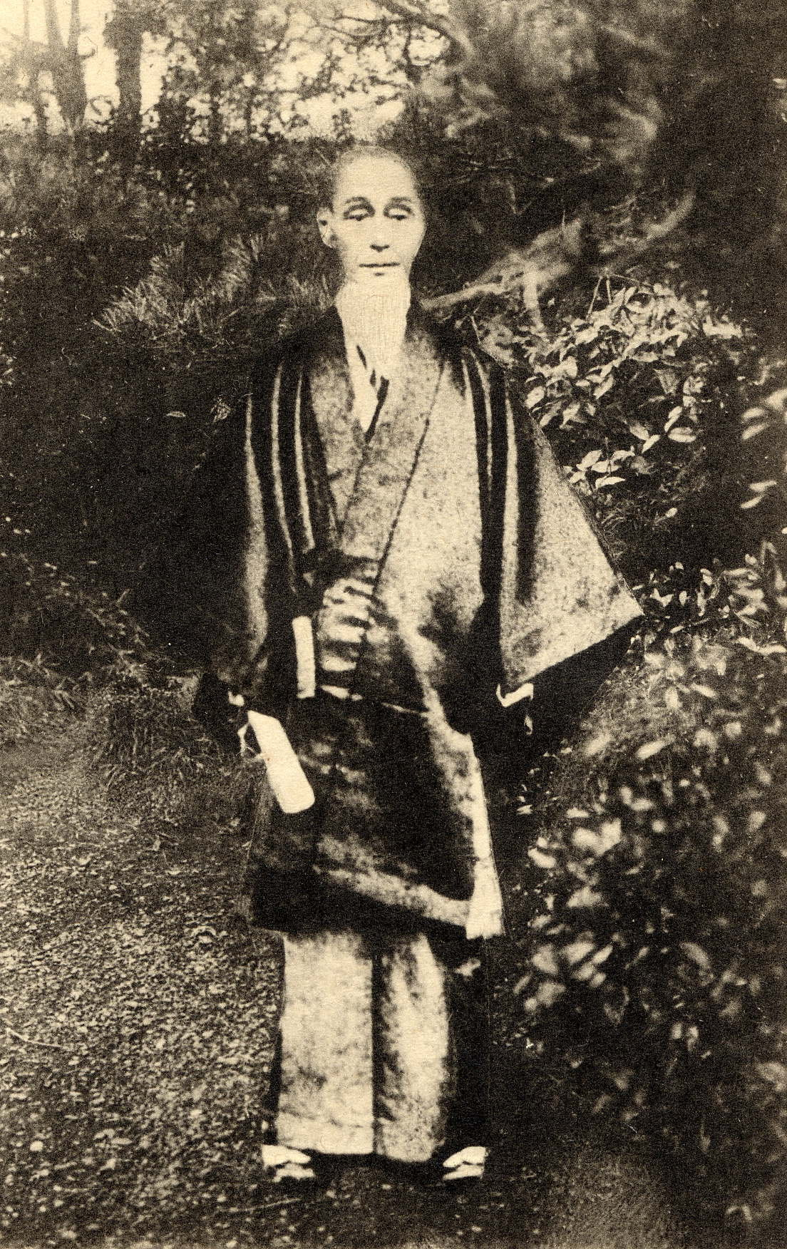 Date Jitoku（伊達自得） was a japanese scholar of Kokugaku and history in Meiji period.